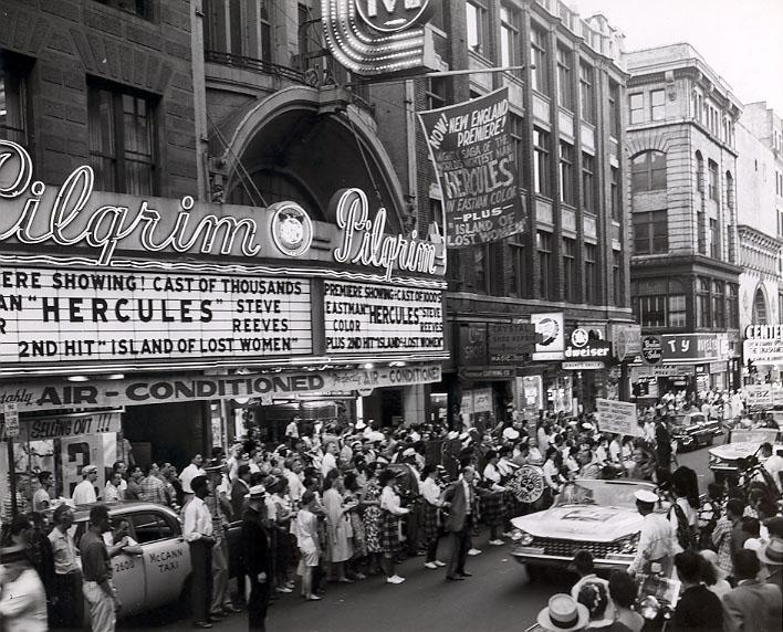 Promotional photograph of premiere of Hercules (1958)